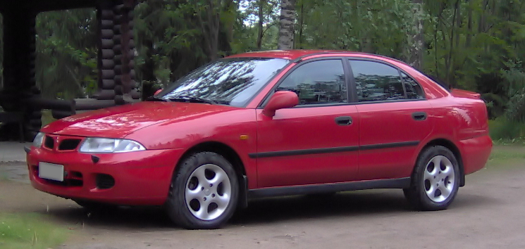 Mitsubishi Carisma Hatchback 1.8GDI 1998 with Millo Miglia rims, 205/55 R15 tires and spoiler